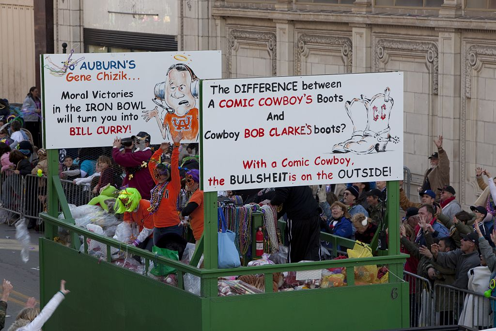 Mardi Gras, Mobile, Alabama.